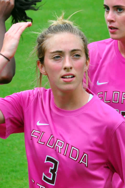 These ladies score goals like nobody ever...